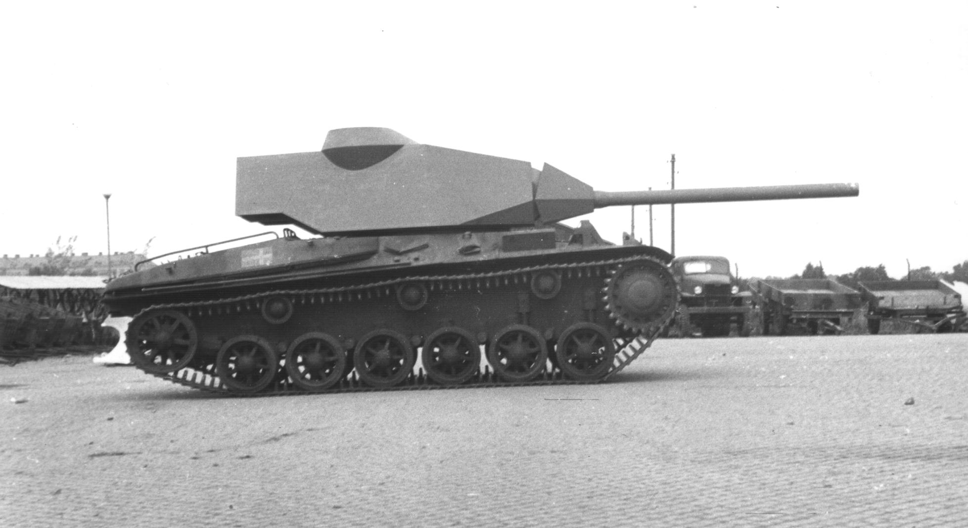 Strv 74 prototype with wooden turret mockup.